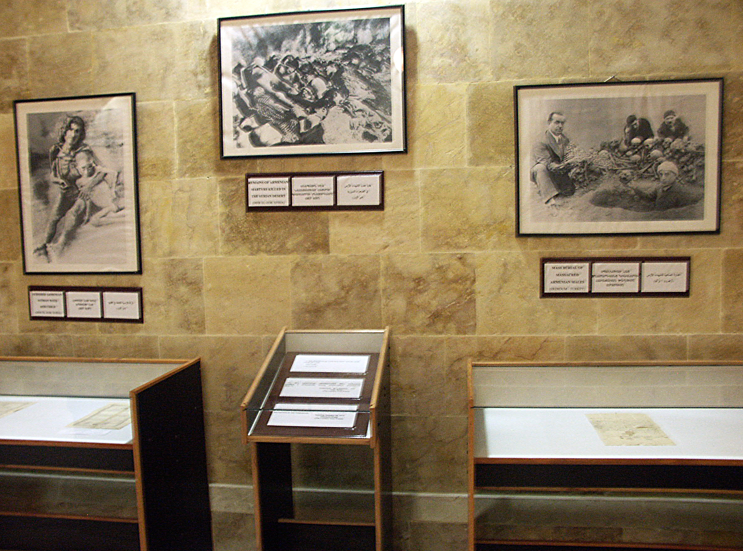 Armenian Genocide memorial of Der Zor, the museum